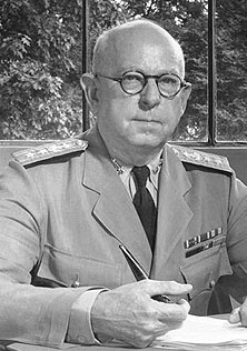 Rear Admiral Harold Gardiner Bowen, USN - At his desk at the Navy Department, Washington, D.C., during the World War II years. The Washington Monument is in the right background, indicating that this office was on the eastern side of Zero Wing, in the Main Navy Building.